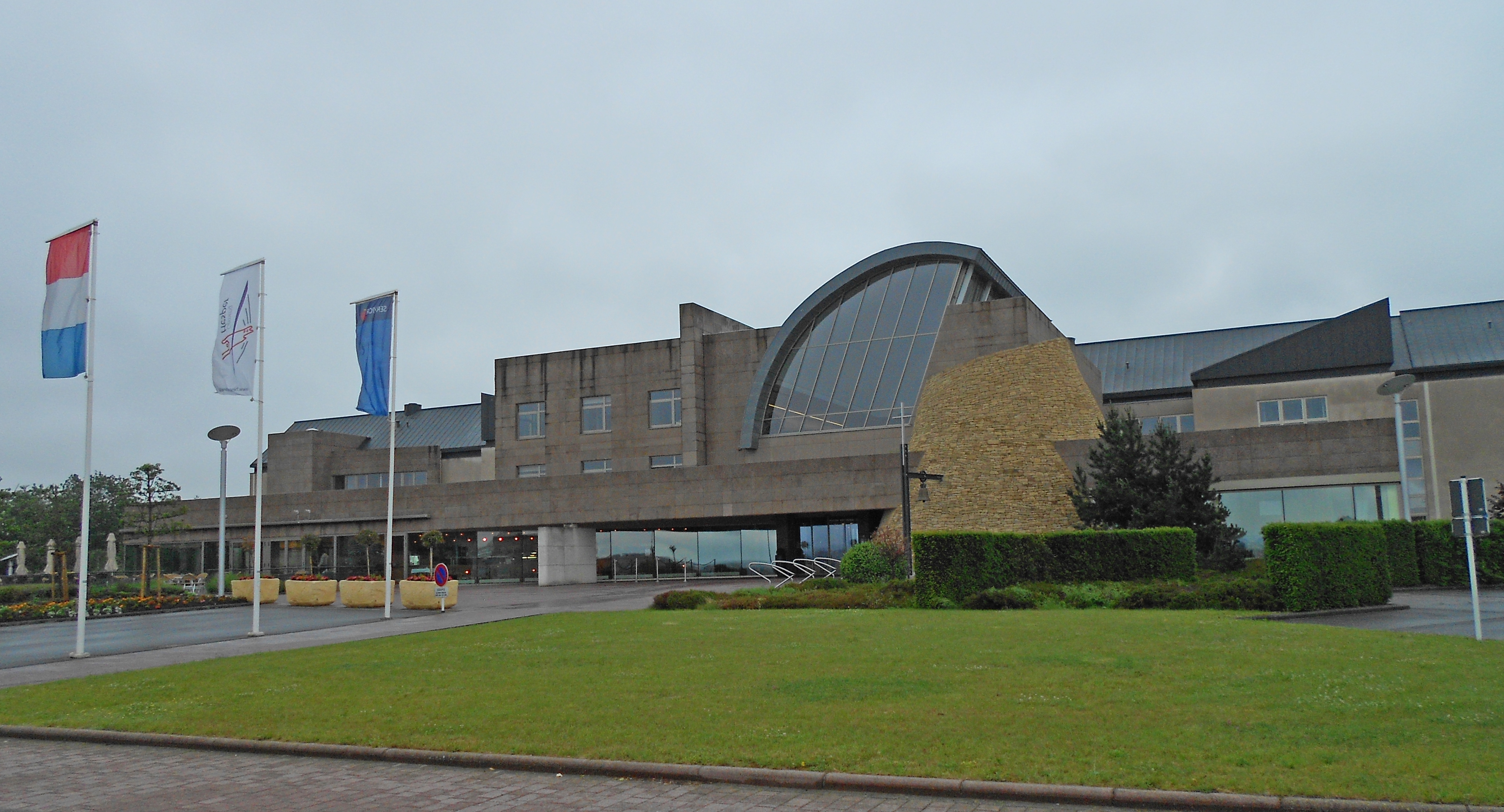 Foyer Hesper Kopp um Houwald, Gemeng Hesper.